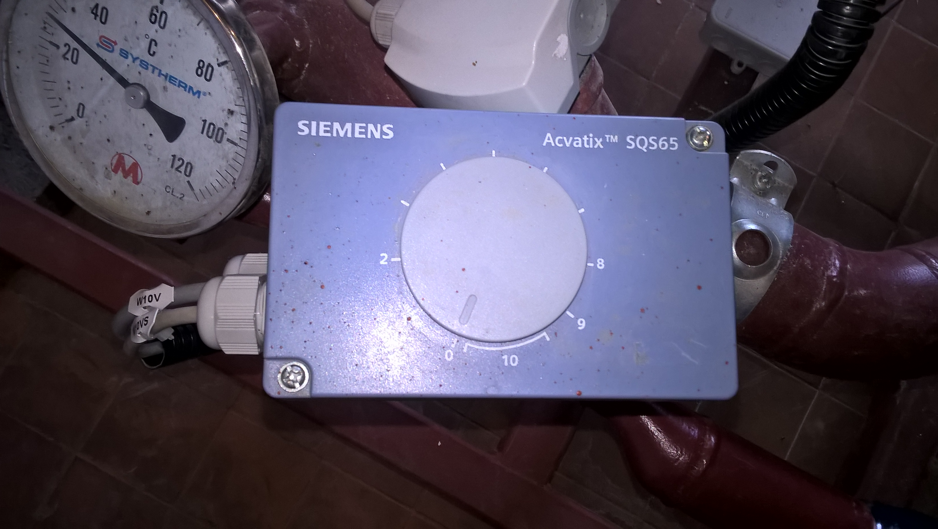 Motorized control valve